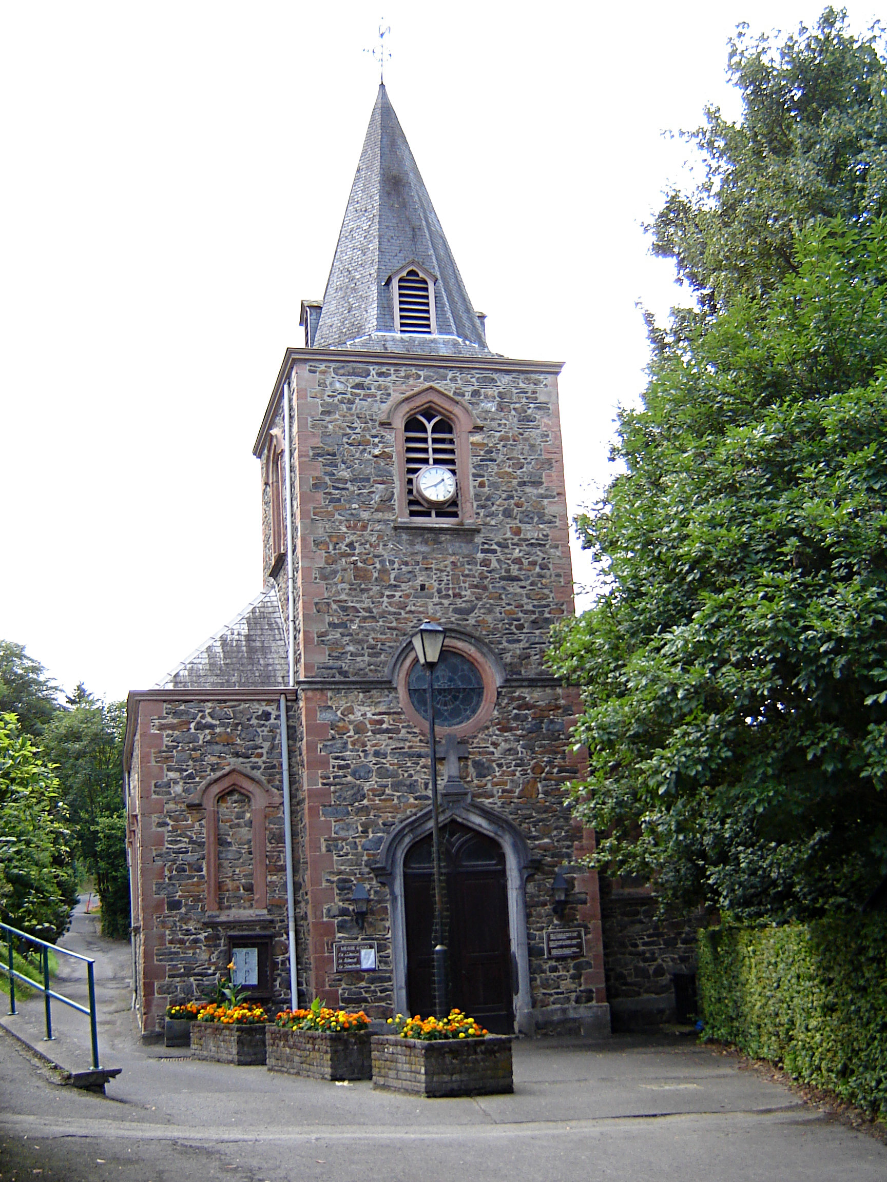 Church of Saint Andrew in Coo. Coo, Stavelot, Liège, Belgium